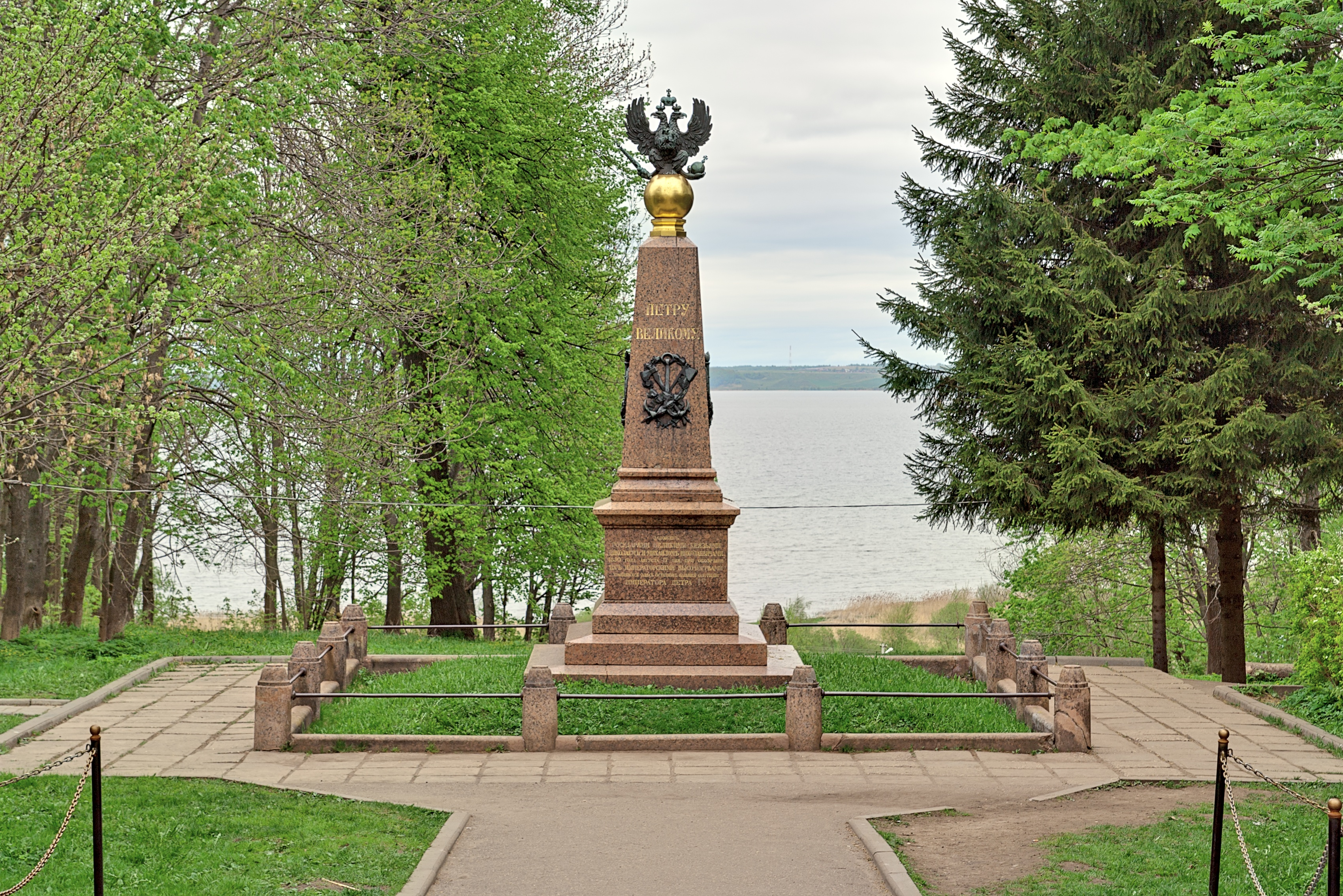 Obelisk in memory of Emperor Peter I. Veskovo village, Botik estate.